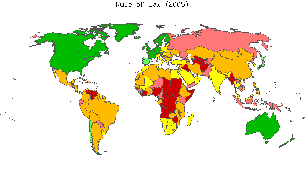 English (en): 2005 map of Worldwide Governance Indicators, which attempts to measure the extent to which agents have confidence in and abide by the rules of society ("rule of law"). 90–100th percentile* 75–90th percentile 50–75th percentile 25–50th percentile 10–25th percentile 0–10th percentile * Percentile rank indicates the percentage of countries worldwide that rate below the selected country.